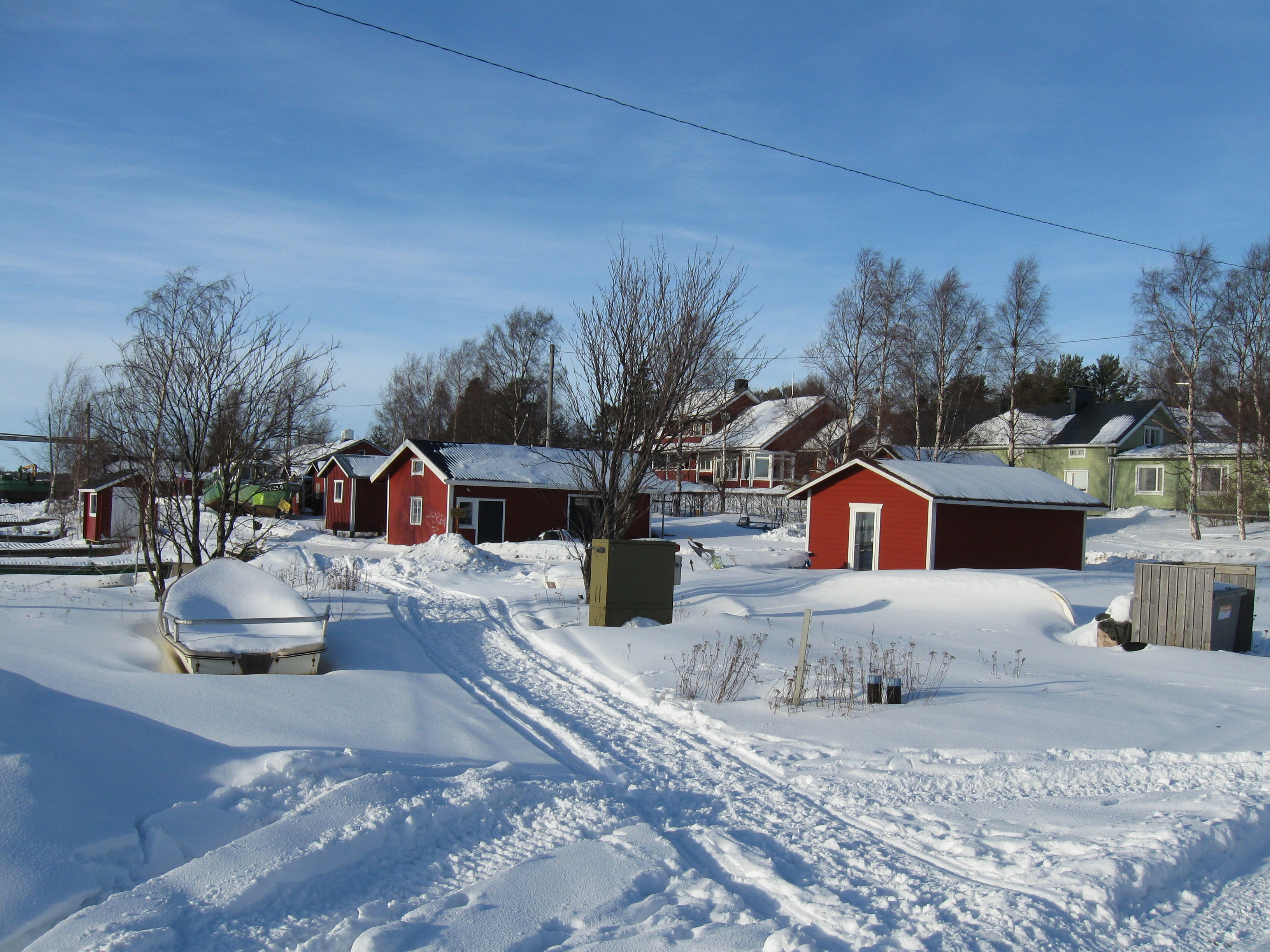 The fishing harbour of the Kiviniemi village in Kello, Oulu, Finland